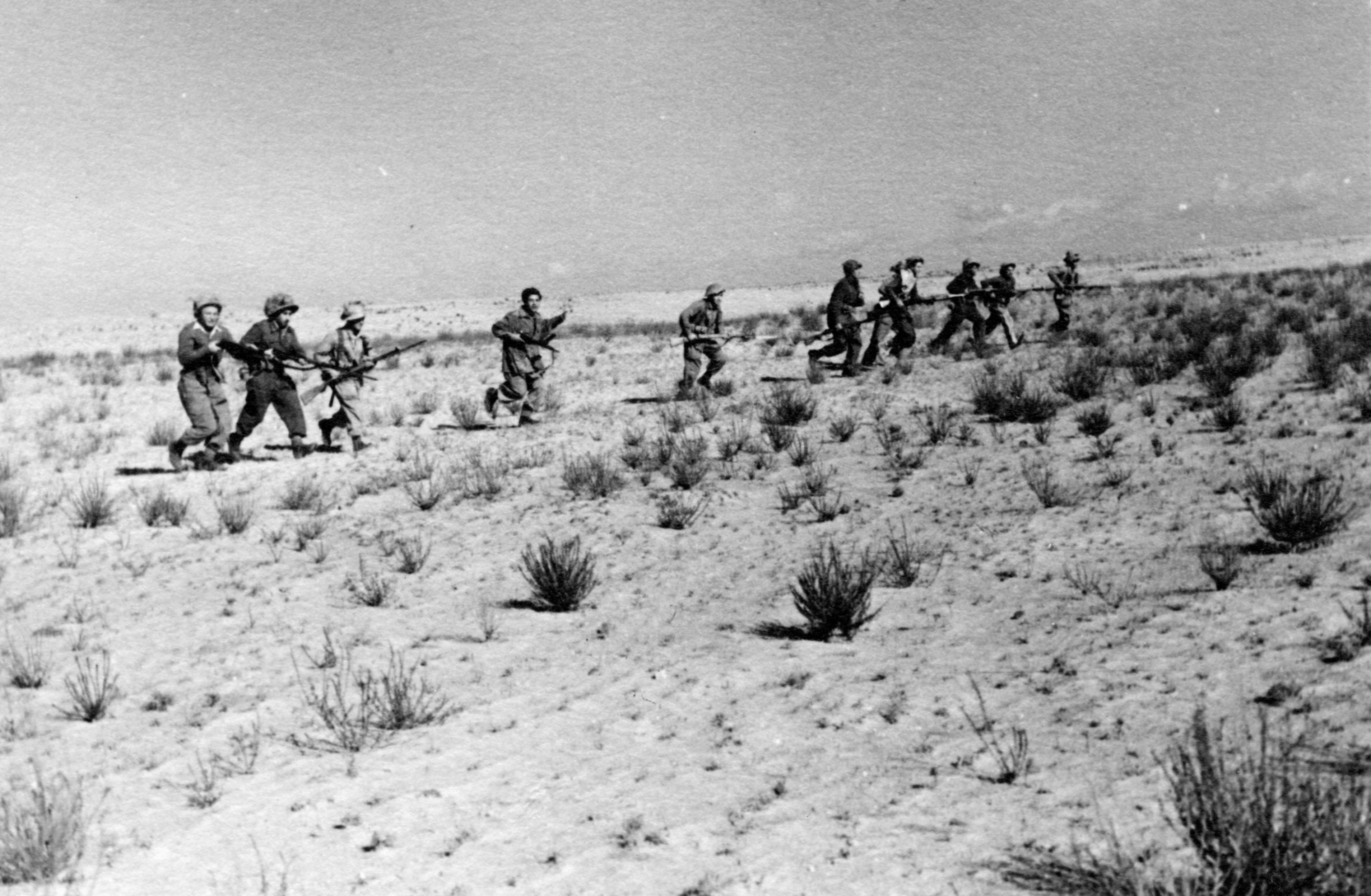 The Palmach, Israel Defense Forces